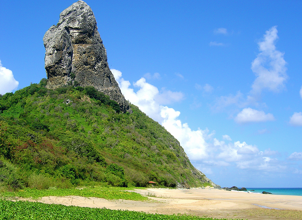 Morro do Pico (321 metres), highest point of the island of Fernando de Noronha